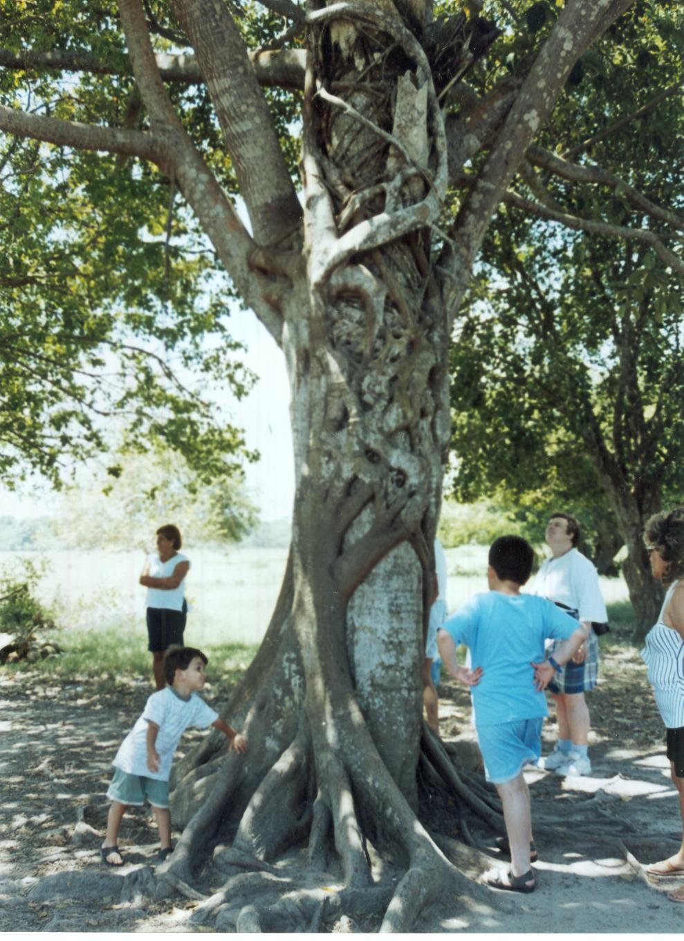 Close up of the Arboles Amantes or Lover Trees in Tecolutla Veracruz State Mexico